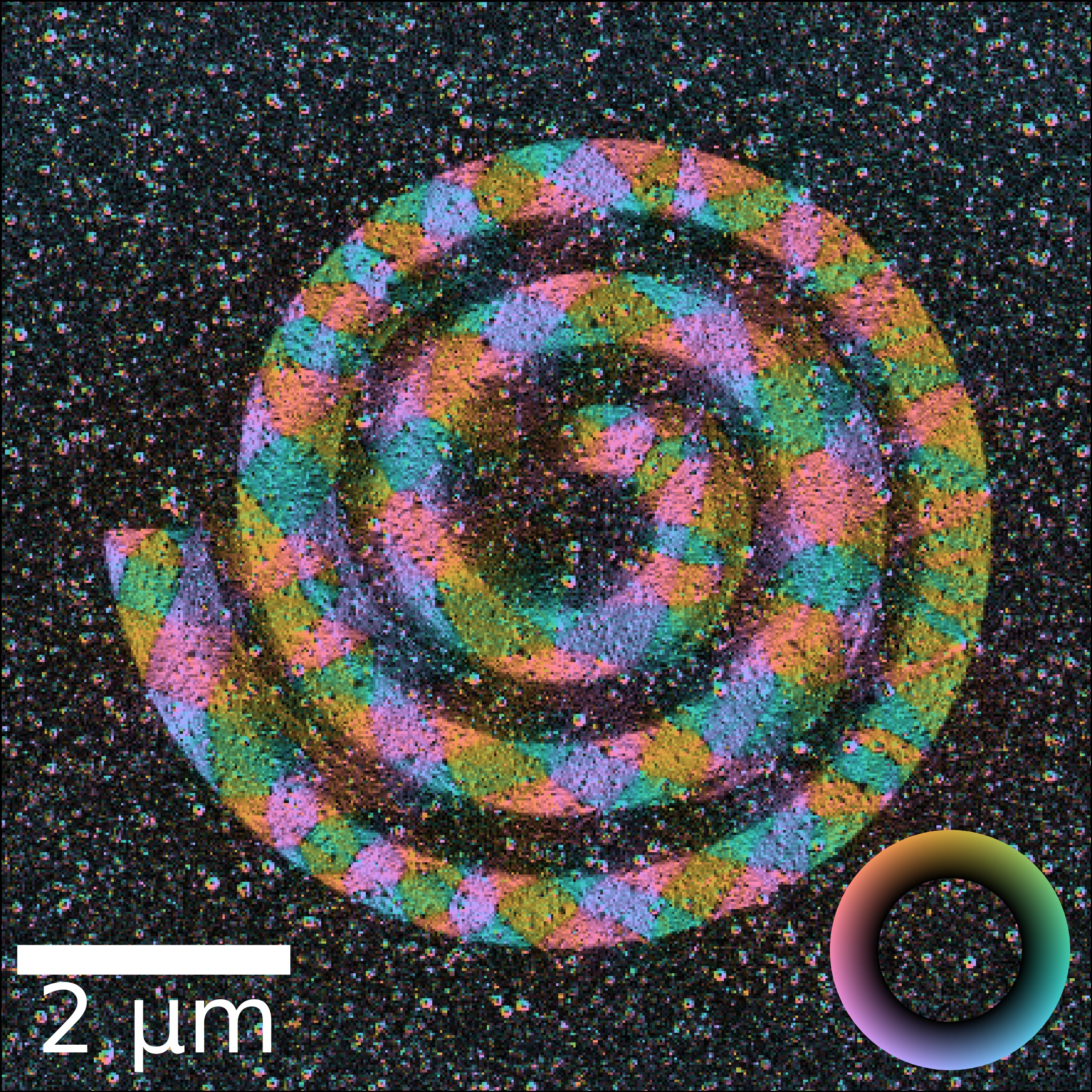 As deposited, the material Fe60Al40 is not ferromagnetic. However, irradiating it with Ne+ ions induce disorder in the material, making it ferromagnetic. This image shows an example of this, where a focused ion beam has been used to irradiate a spiral pattern. Imaged using scanning transmission electron microscopy - differential phase contrast (STEM-DPC), which enables this type of imaging by quantifying how much the electron beam is deflected by the magnetic field in the material.